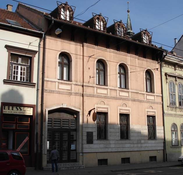 Petró-house, Exhibition of Lajos Szalay graphic artist, Miskolc, Hungary